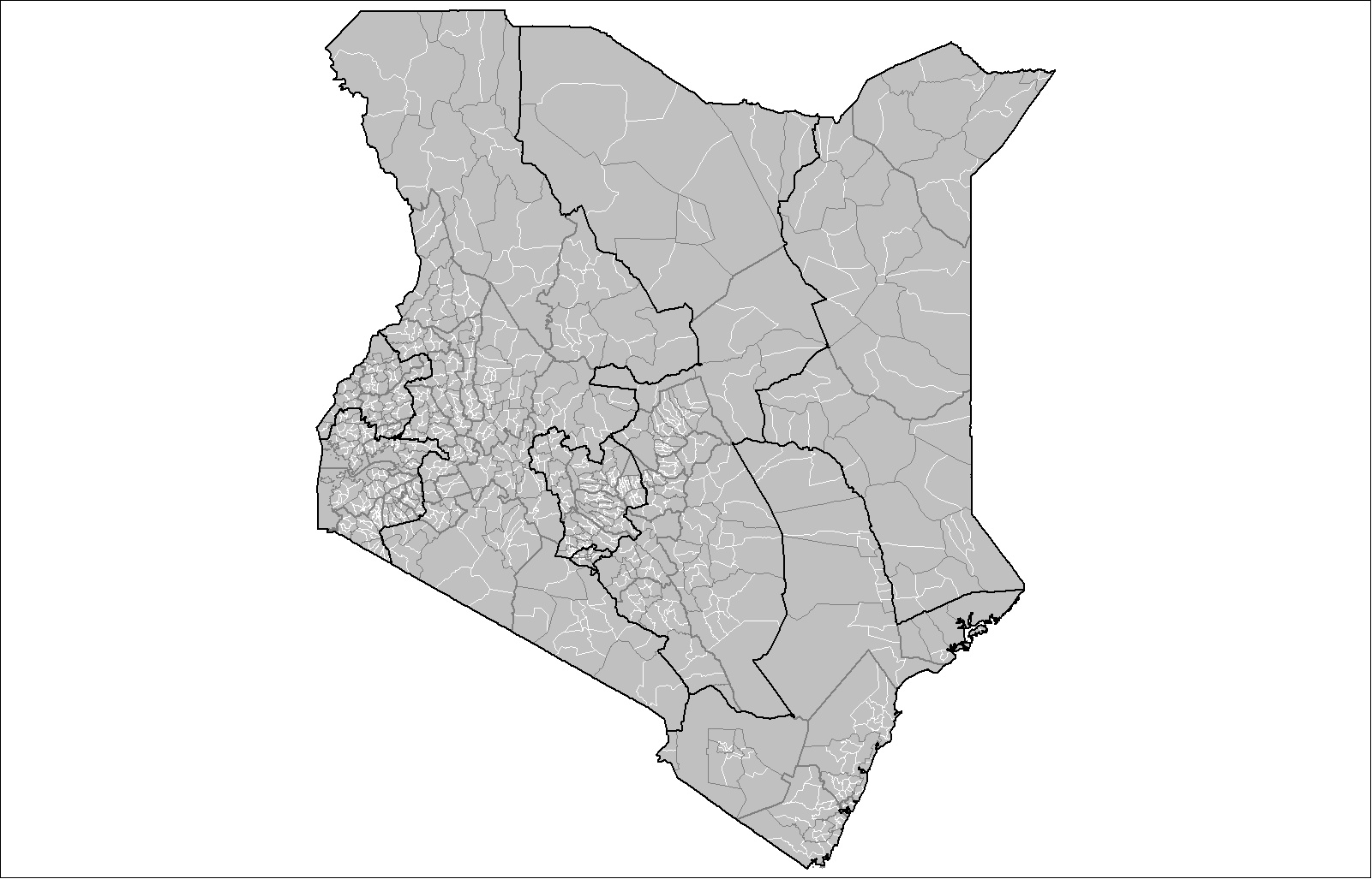 Map of the locations of Kenya.